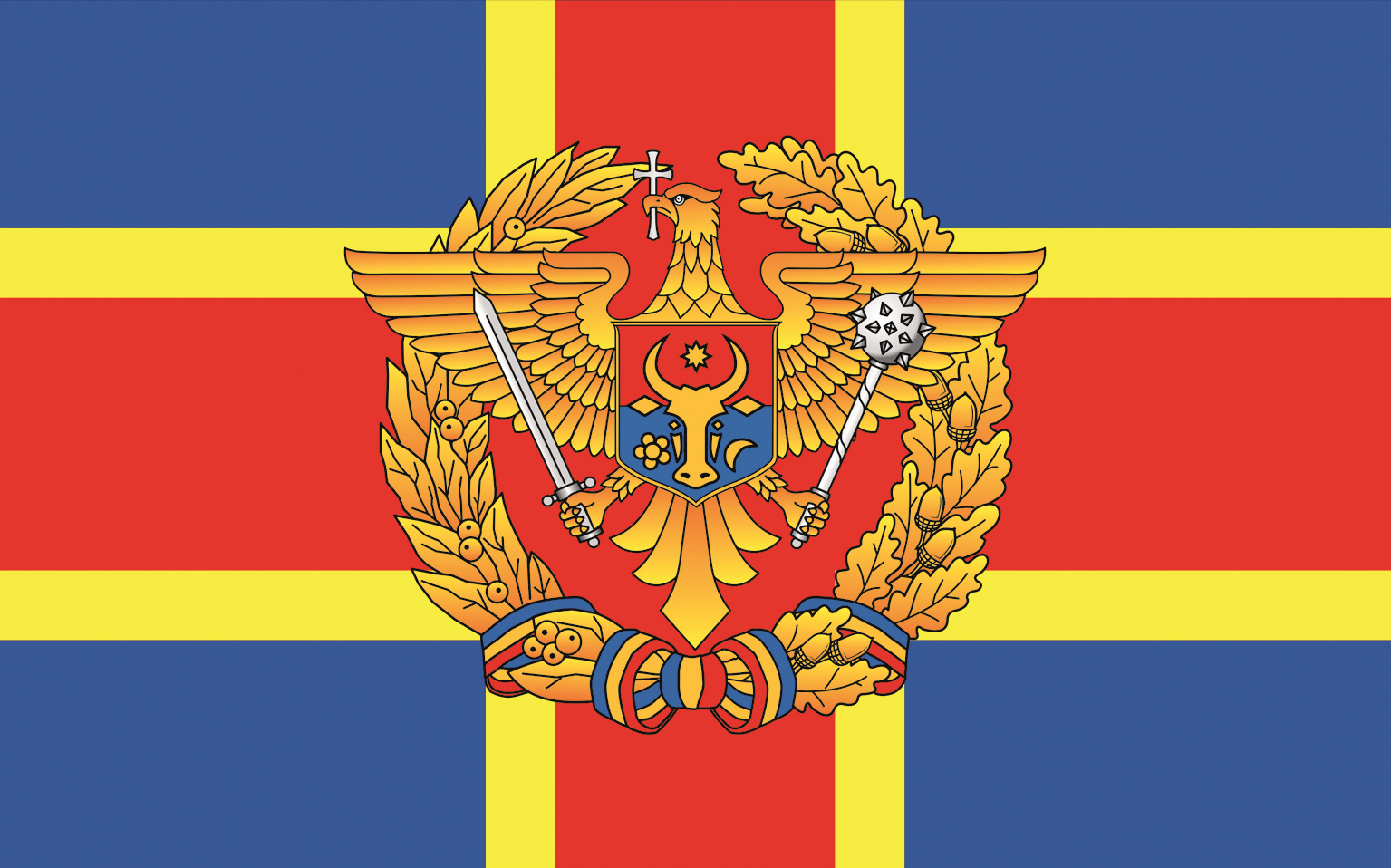 Flag of the Armed Forces of Moldova